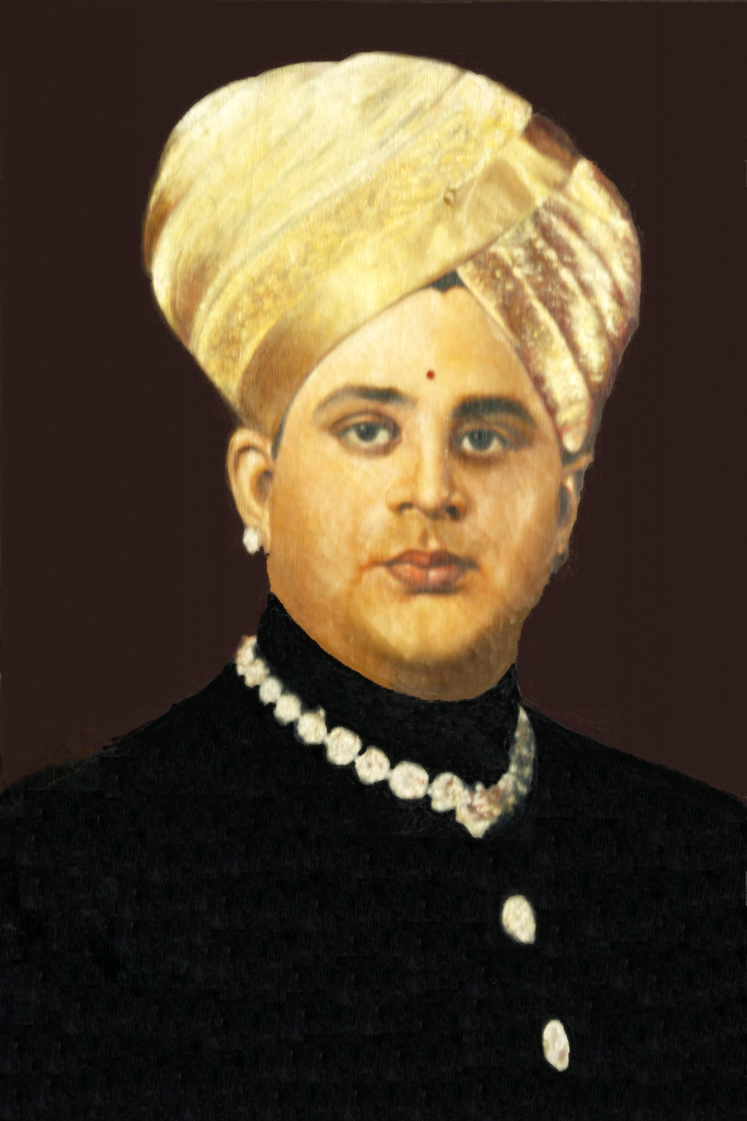 This is a family inheritance and i am the owner of this photo from the original painting which is owned by me. It is painting from one of the court artist and i am the son-in law of the Maharaja